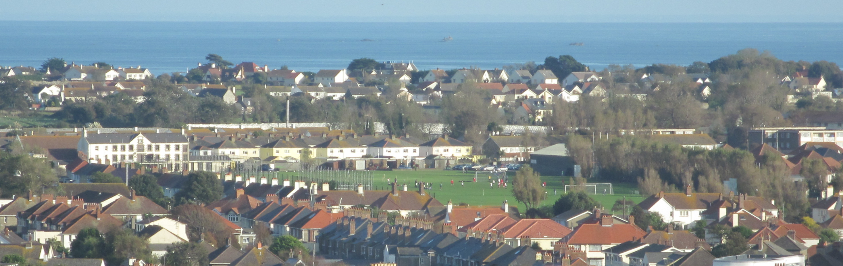 FB Fields from Fort Regent, Jersey